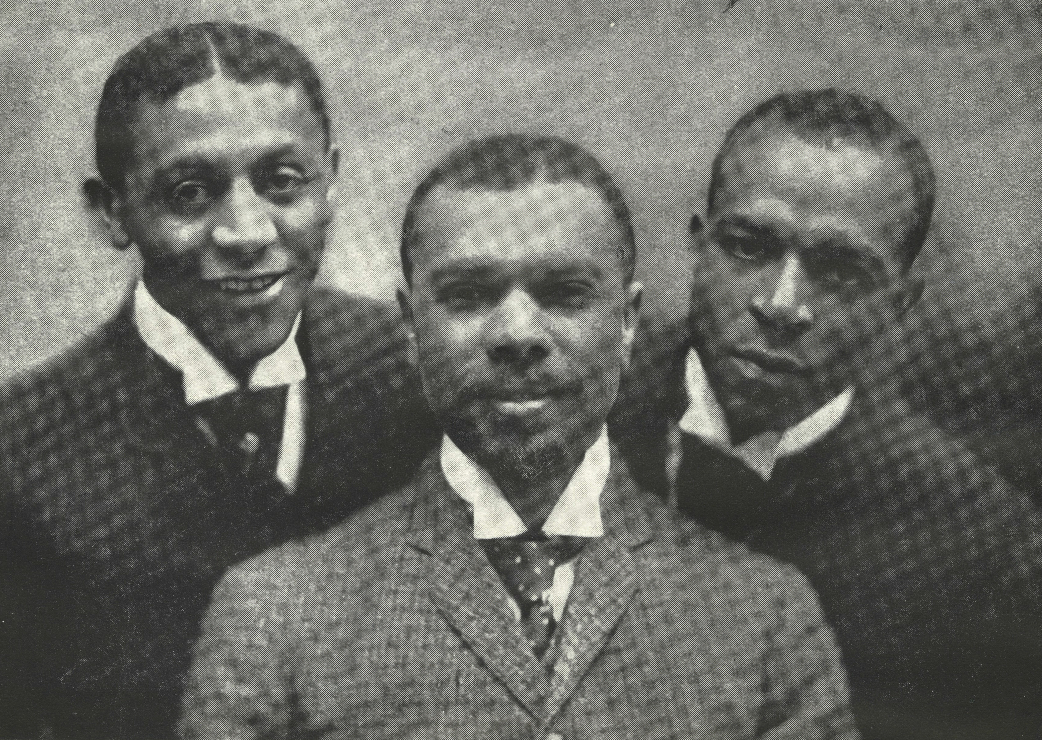 Portrait of composers and producers Bob Cole, James Weldon Johnson, and J. Rosamond Johnson